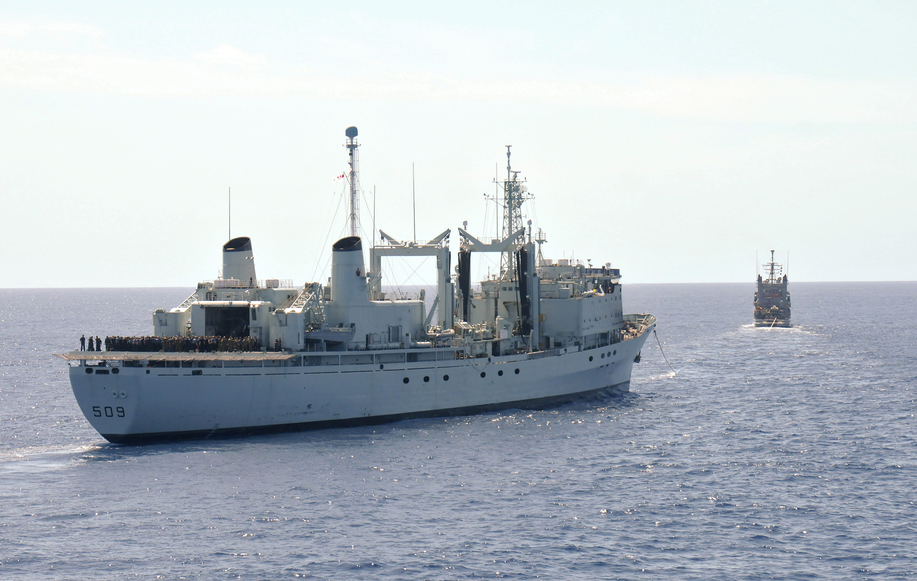 The U.S. Military Sealift Command fleet ocean tug USNS Sioux (T-ATF-171) tows the Royal Canadian Navy replenishment oiler HMCS Protecteur (AOR 509). Protecteur suffered a fire and breakdown 340 nautical miles northeast of Pearl Harbor, Hawaii (USA). She was moving at limited speeds and the U.S. Navy ships USS Michael Murphy (DDG-112), Chosin, and USNS Sioux (T-ATF-171) were dispatched to assist, with the Sioux later towing Protecteur to Hawaii after Chosin´s rope broke.